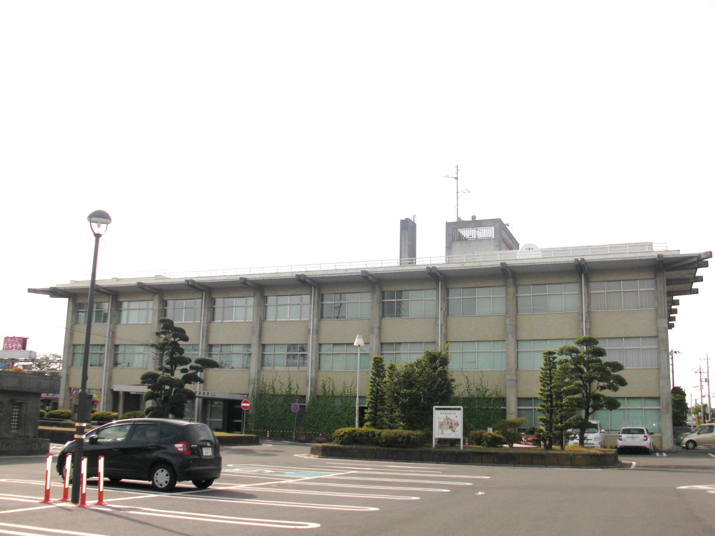 This is Shimotsuma city hall.(Ibaraki,Japan)